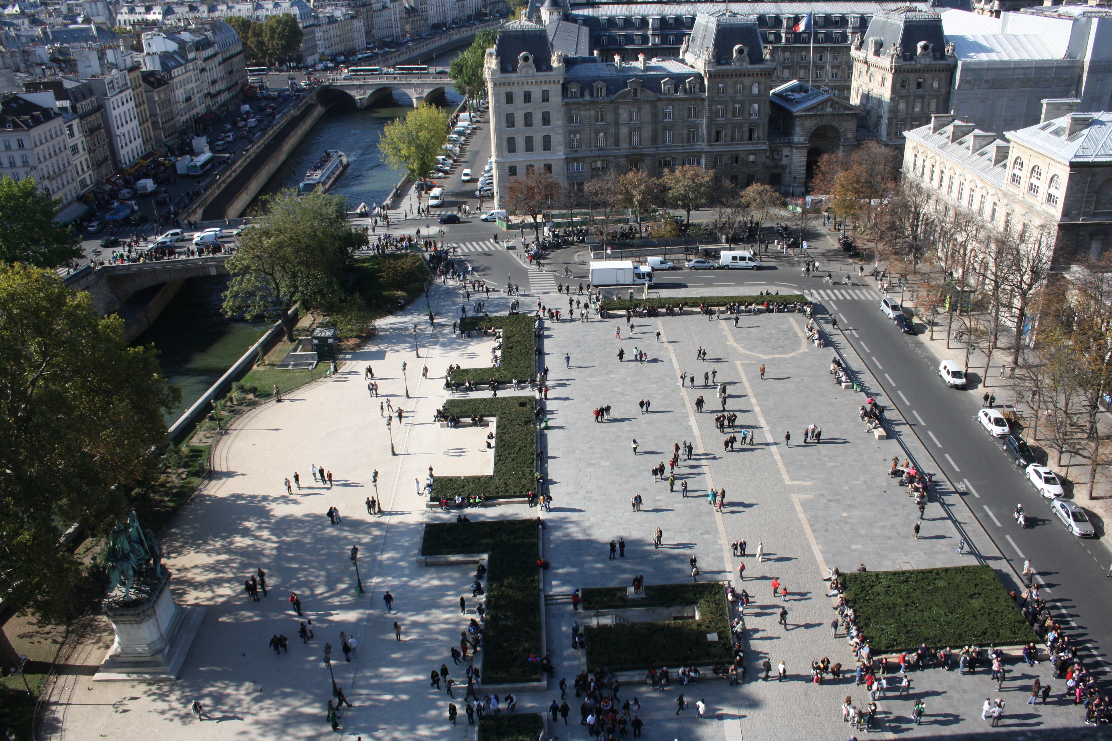 Parvis Notre-Dame - Place Jean-Paul II (Paris)